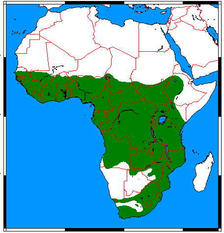 Range map for Marsh Mongoose (Atilax paludinosus), made by me with help of Map depending on the range map at IUCN red list.